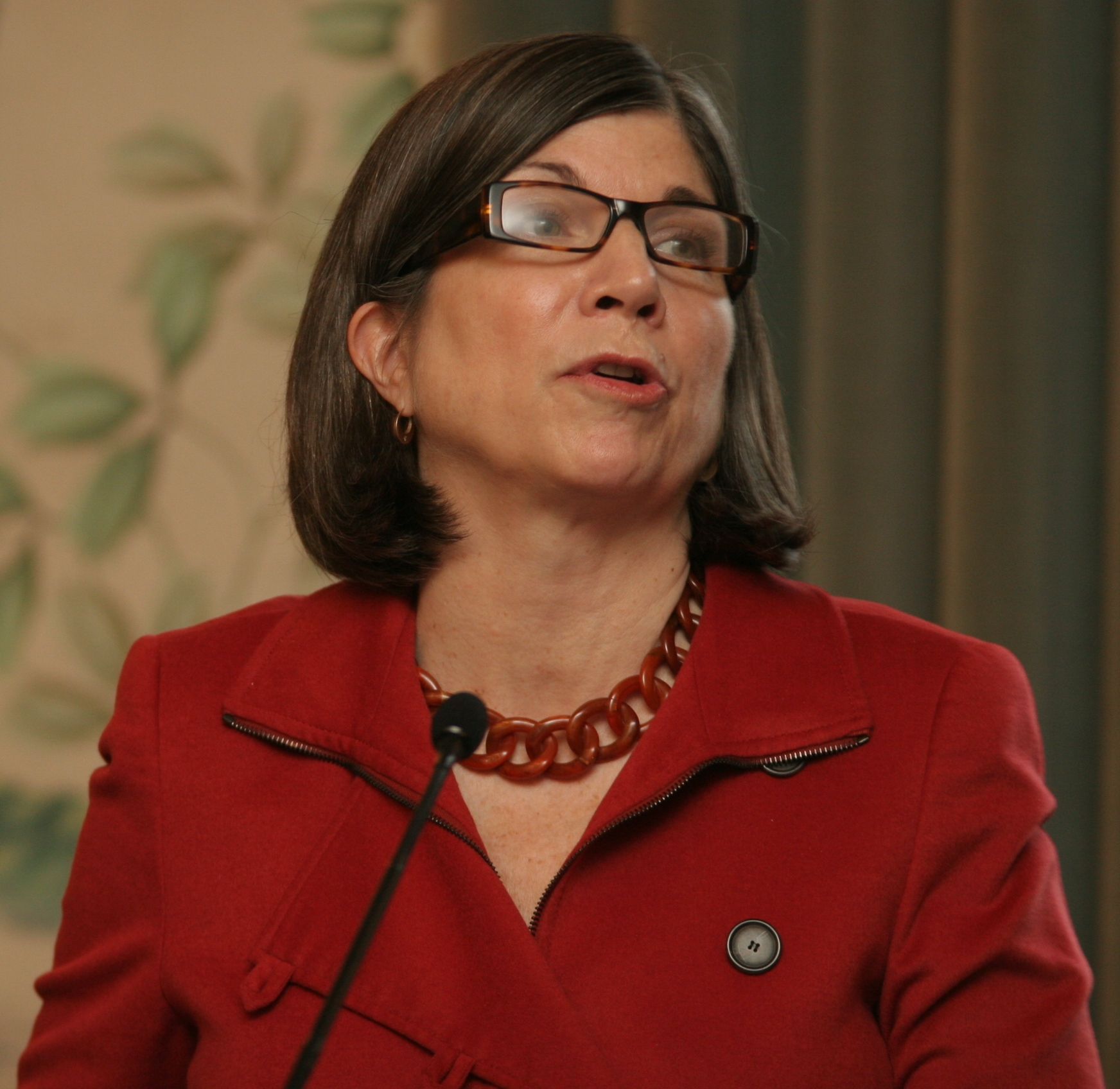 Anna Quindlen addressing the Barnard Class of '74; she is the head of the Board of Trustees.